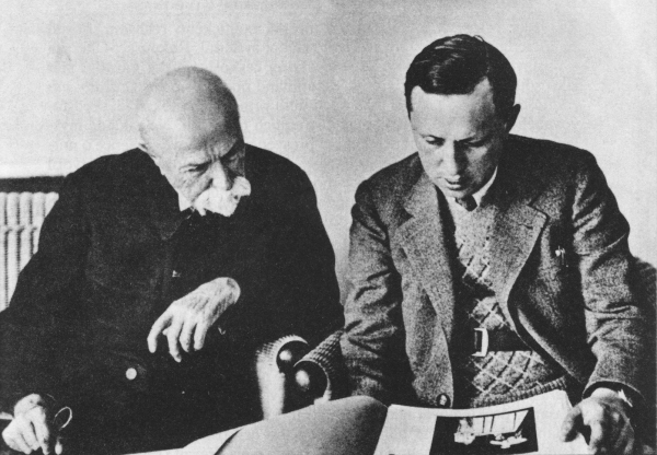 T. G. Masaryk and K. Čapek in Bystřička